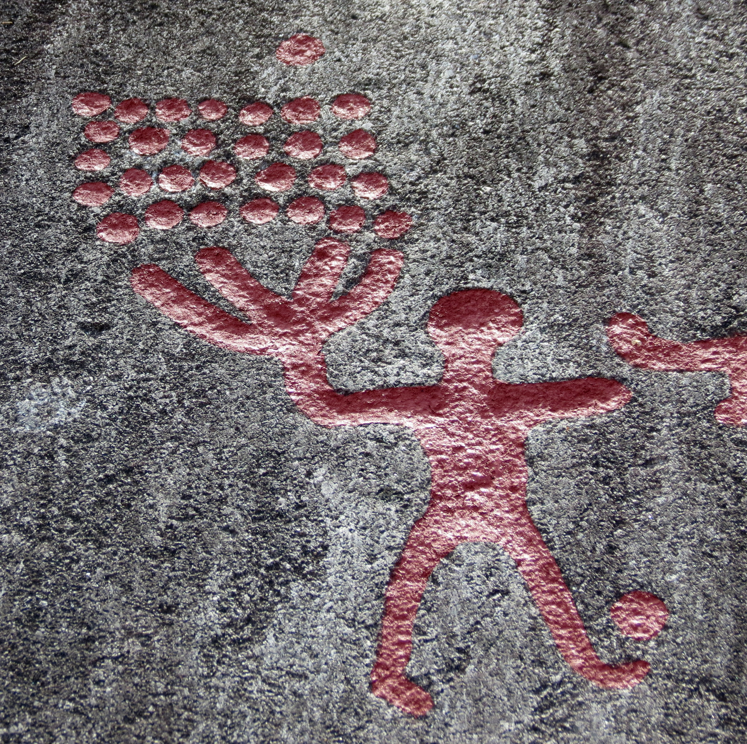 "Calendar man" petroglyph at Aspeberget, Tanum municipality, Bohuslän, Sweden. Interpreted as symbolising the 29 days of the lunar cycle. Tanum 120:1